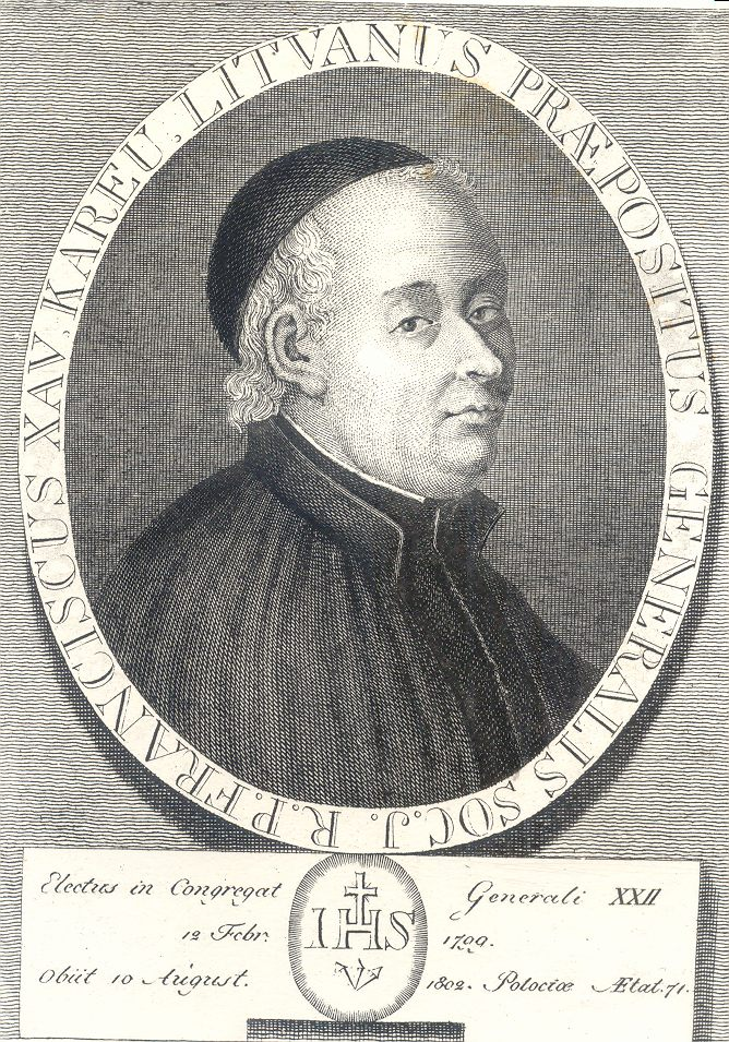 Franciszek Kareu, Vicar General of the Society of Jesus in Russia (early XIXth century)